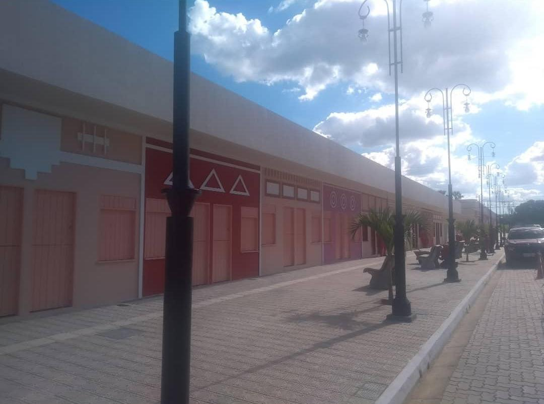 Alameda located in Juazeiro do Norte - CE, is a cultural and culinary center where it houses bars and sales of handicrafts, located between Praça Padre Cicero and Praça do Socorro.